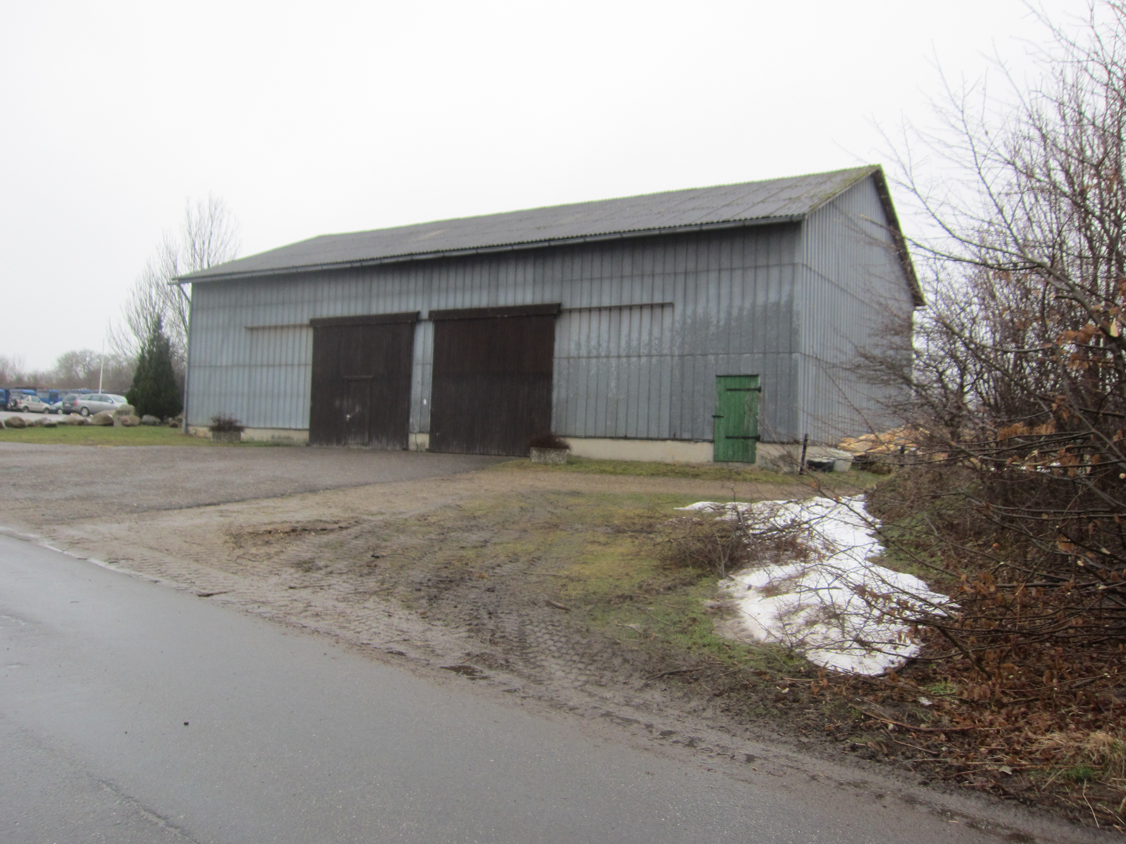 Barn in Steinfurt near Mielkendorf